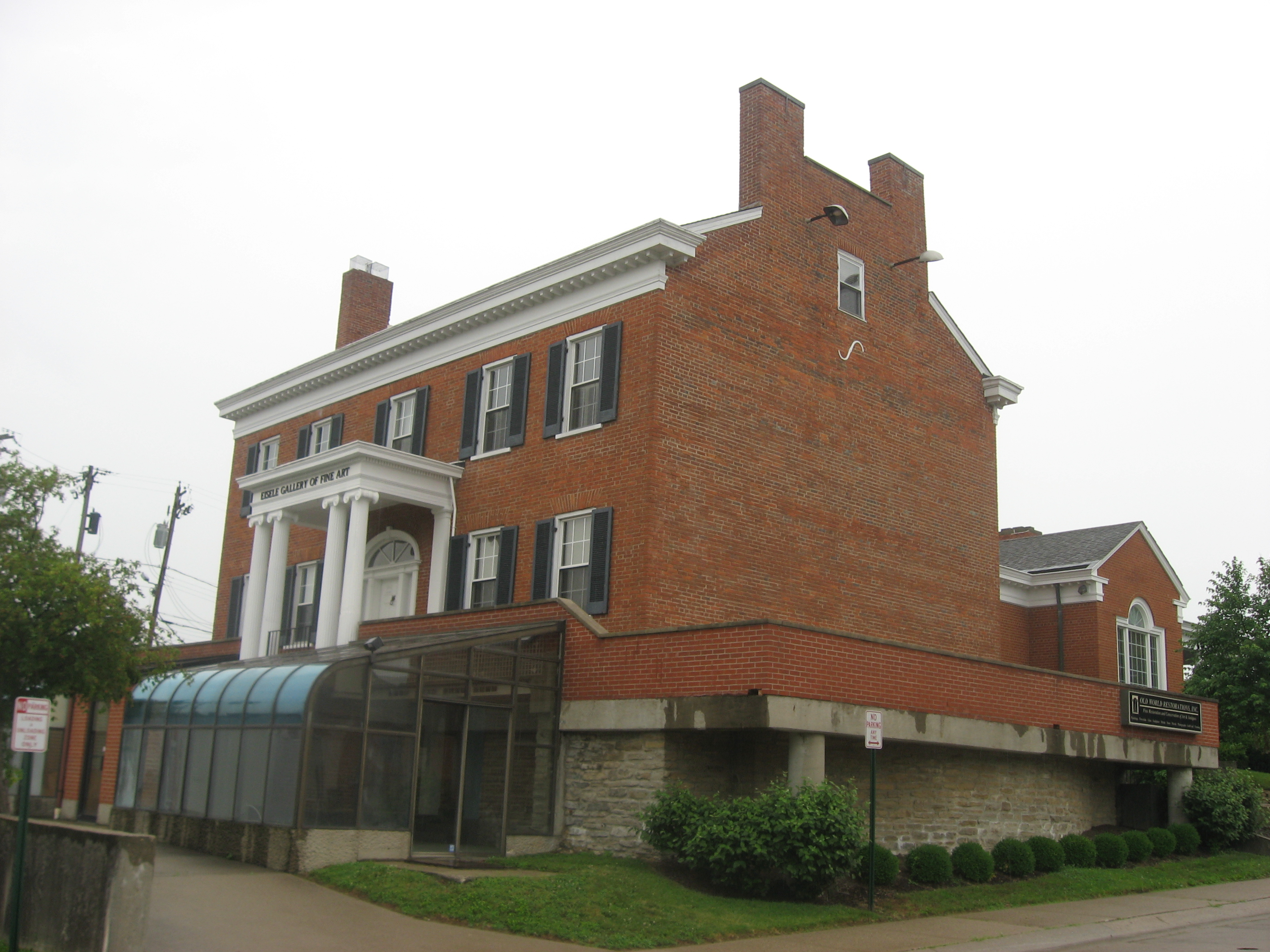 Front and western side of the Joseph Ferris House, located at 5729 Dragon Way in Fairfax, Ohio, United States. Built in 1820 and since converted into an art museum, it is listed on the National Register of Historic Places.